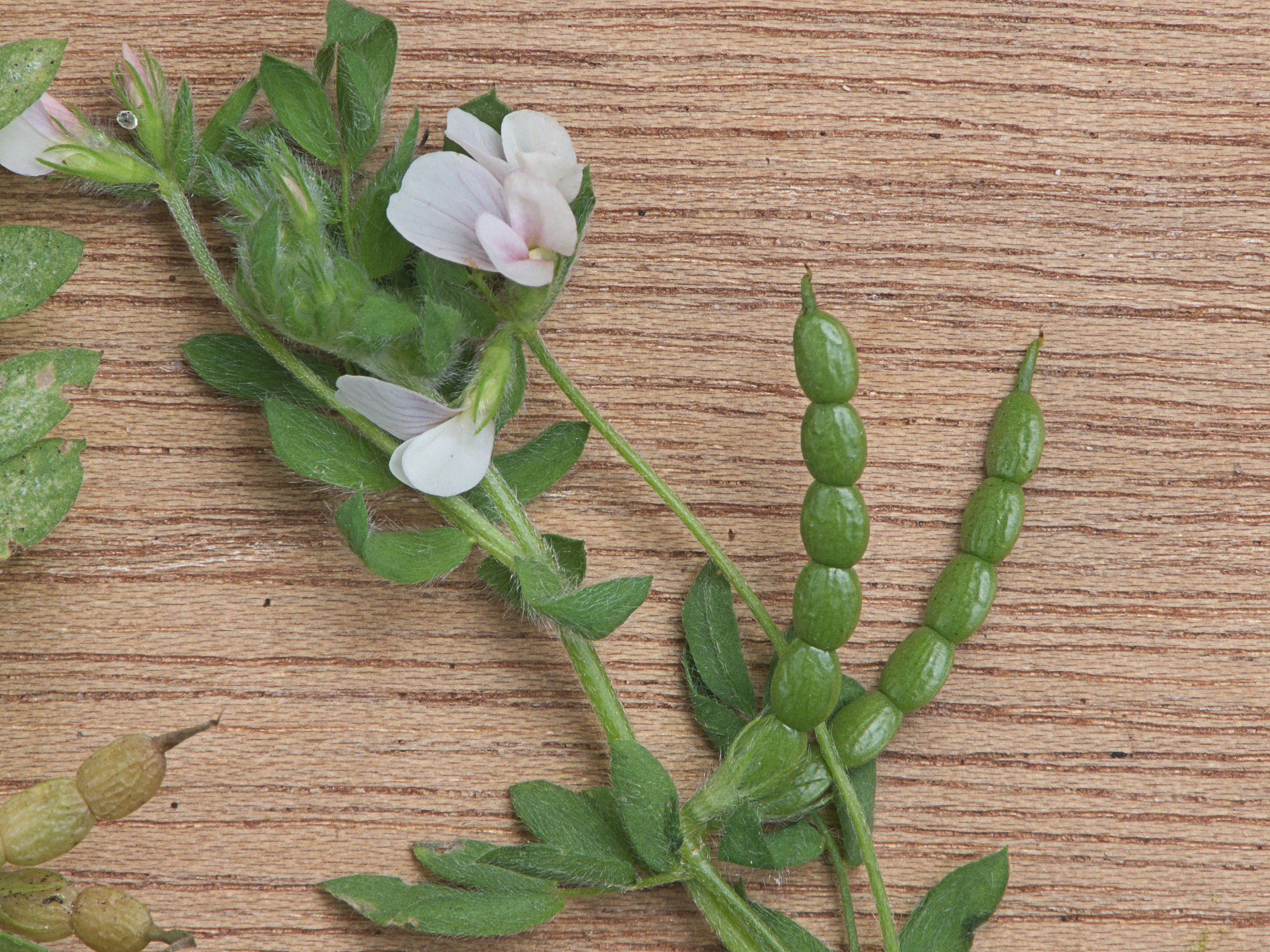 Ornithopus sativus flowers and seedpods, serradelle bloemen en peulen